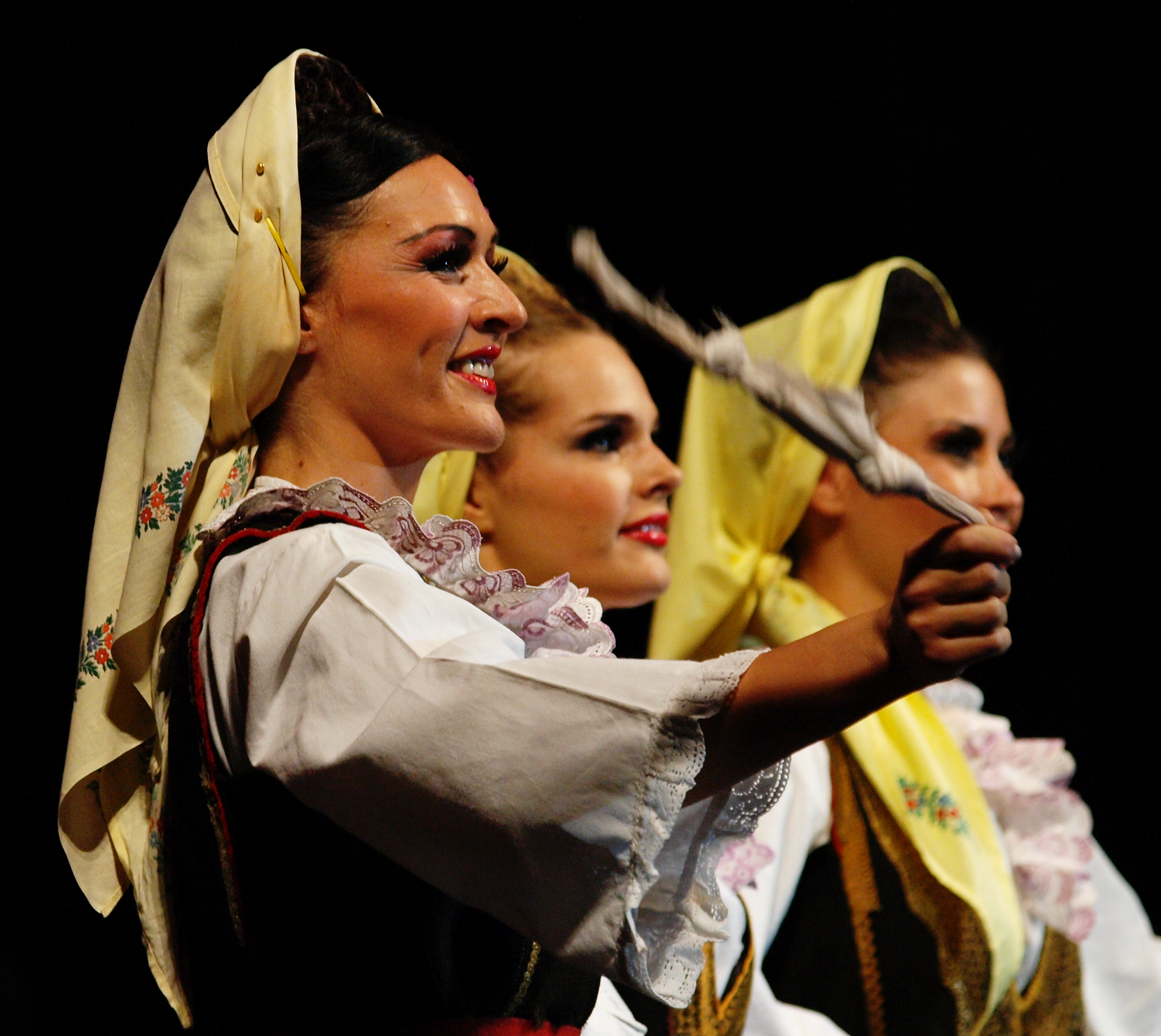 Shopi play, south-east Serbia. National ensamble KOLO from Belgrade.